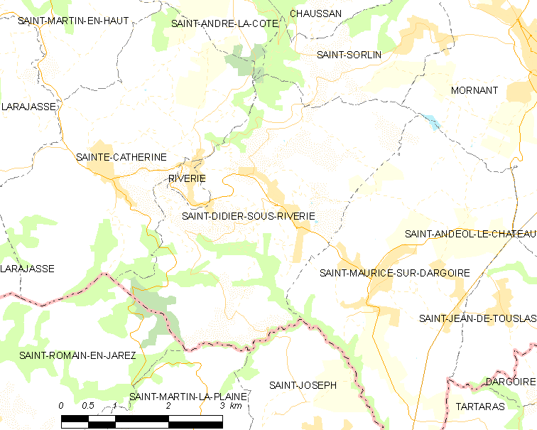 Map of French municipality